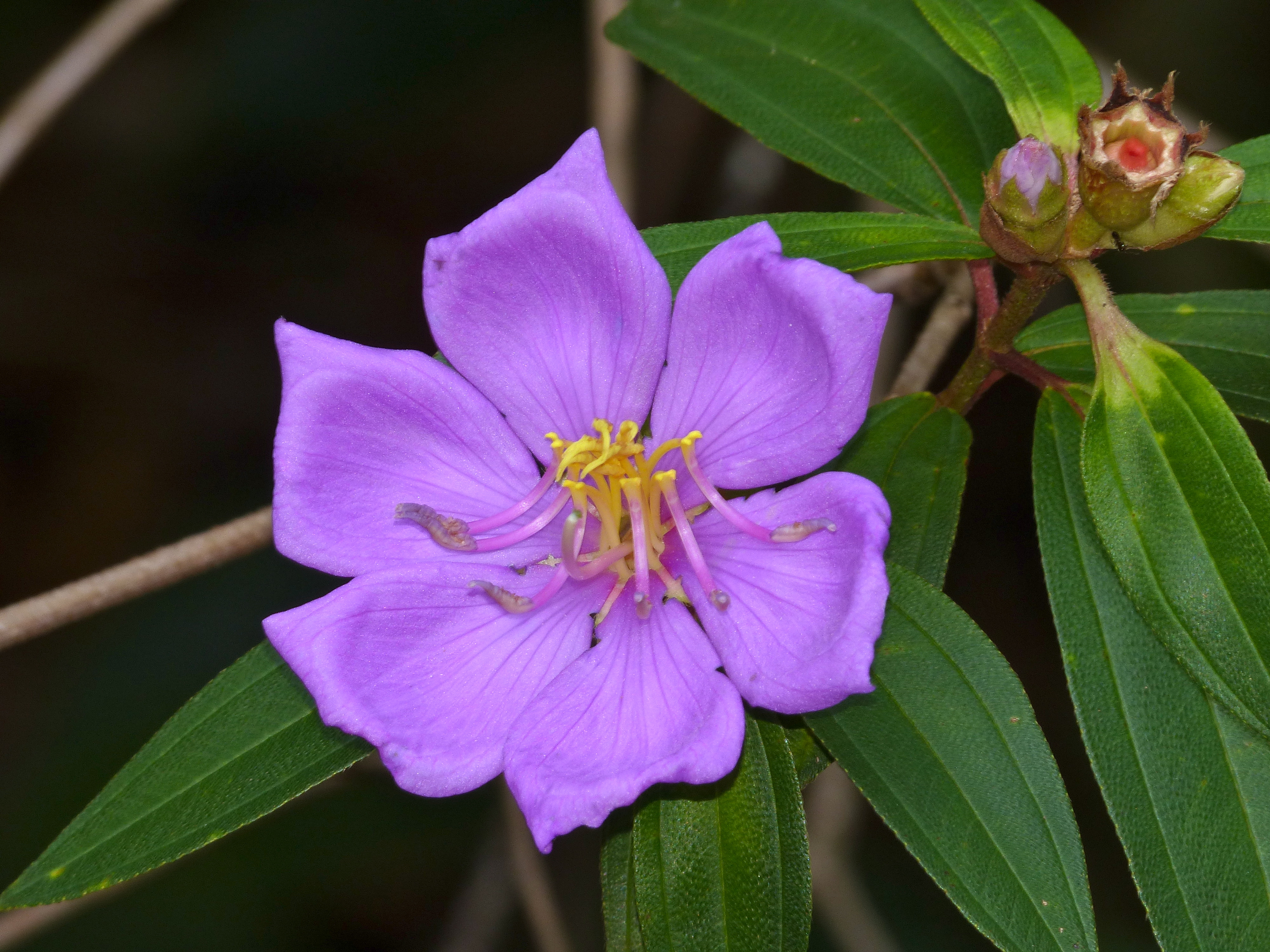 Permai Rainforest Resort, Santubong Peninsula North of Kuching, Sarawak, MALAYSIA